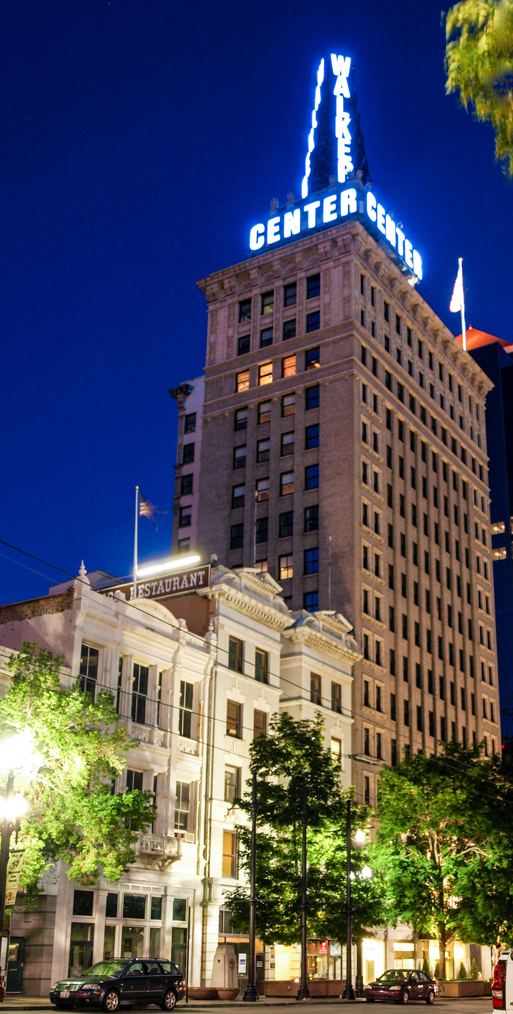 Night view of the Walker Center, located at 175 S. Main Street in Salt Lake City, Utah, United States. Built in 1911, it is listed as the "Walker Bank Building" on the National Register of Historic Places.